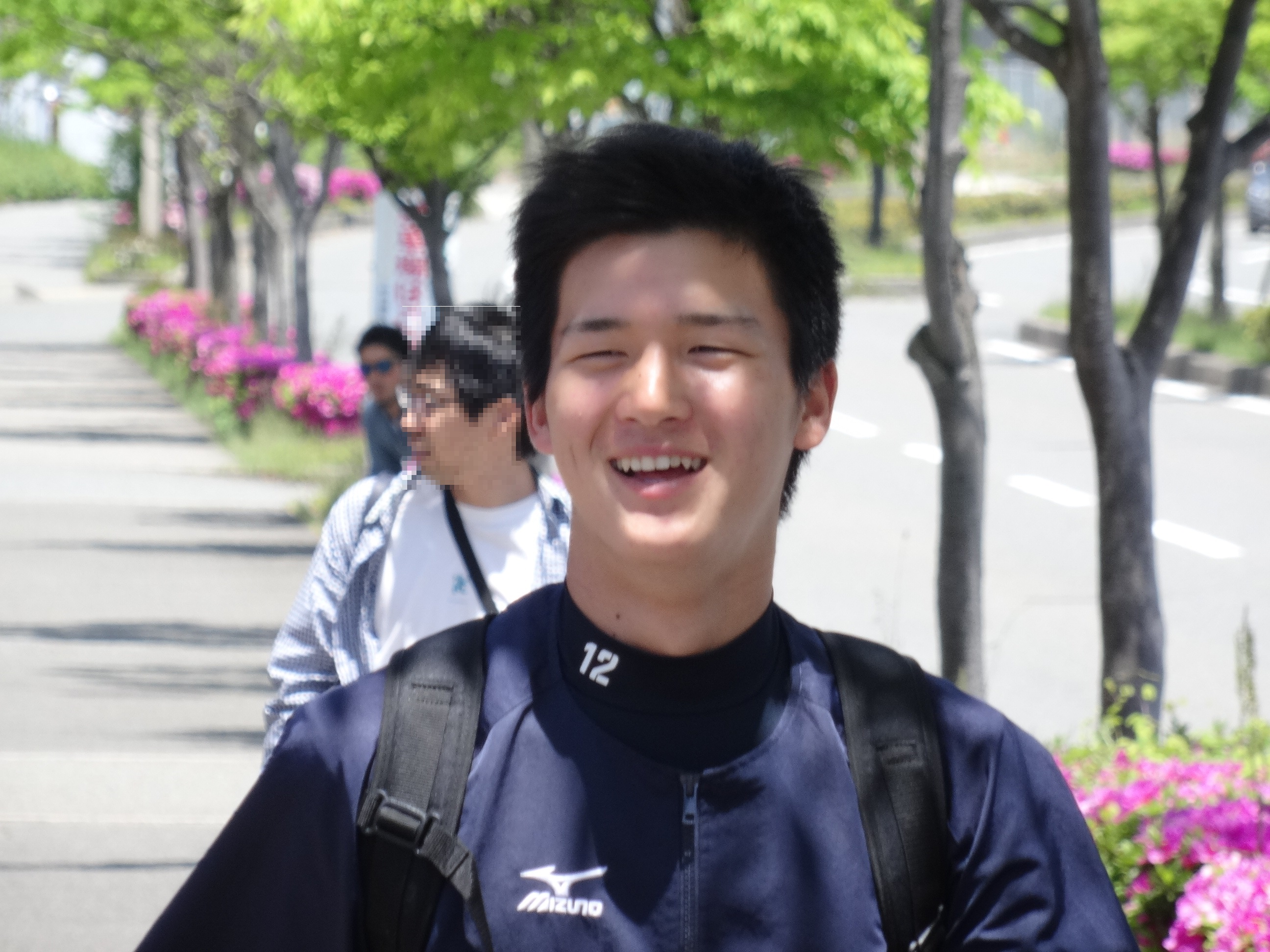 Kodai Sano, pitcher of the Orix Buffaloes, at Kobe Sports Park Sub Baseball Ground.